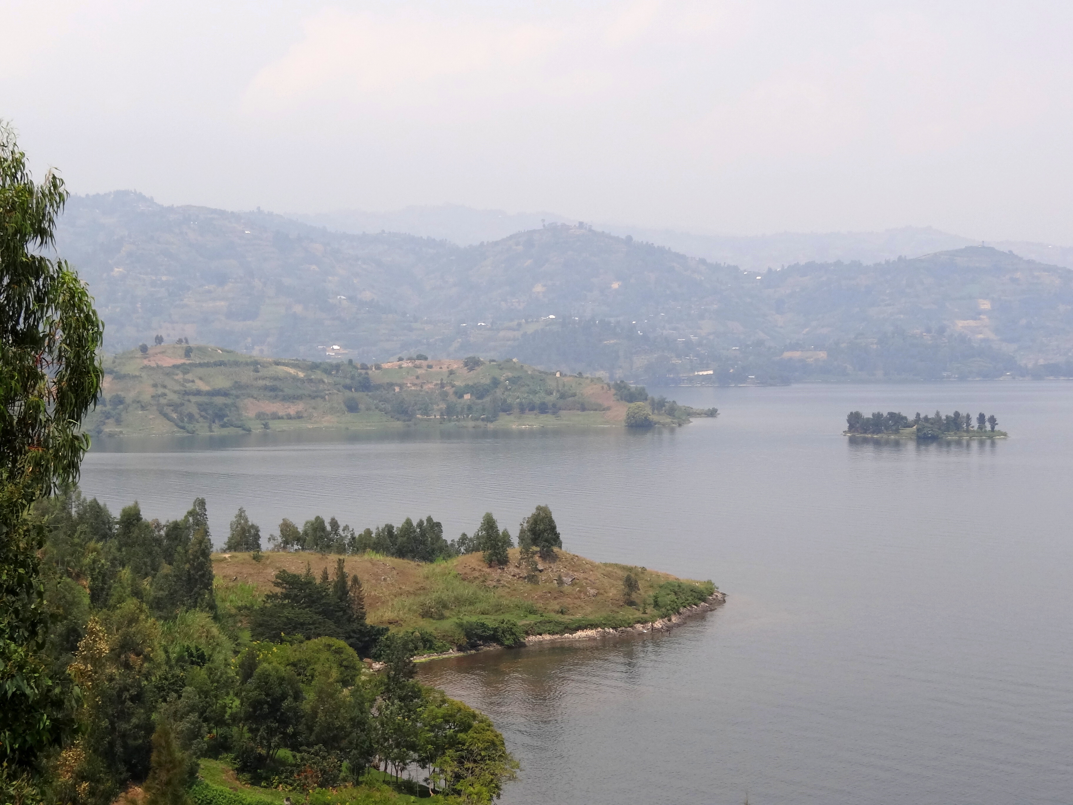 Shore of Lake Kivu en route to Rubona - Near Rubavu-Gisenyi - Rwanda